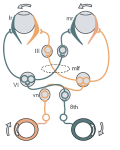 Three Neuron Arc